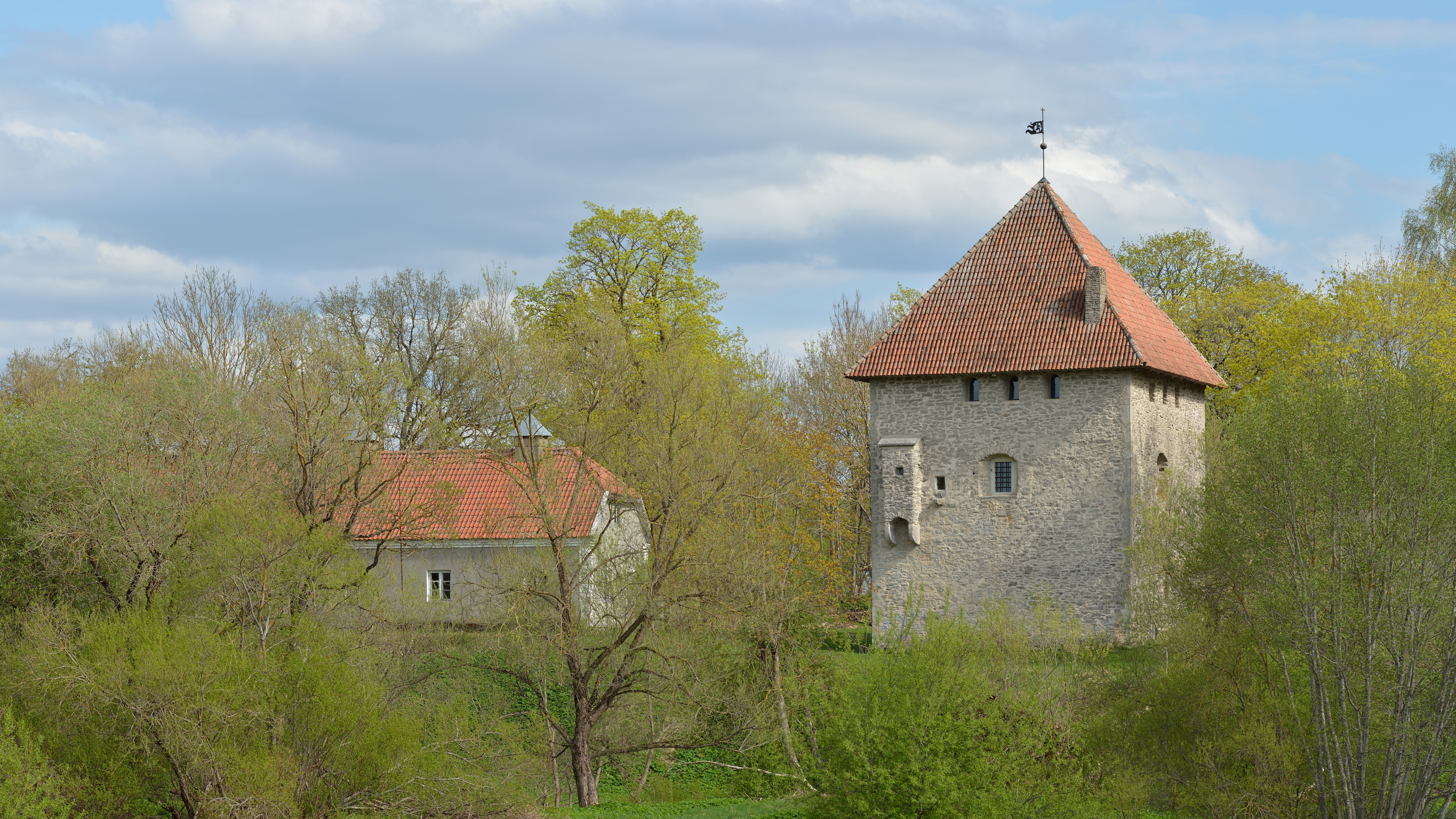 Vao tower house, built in the end of 15. century.